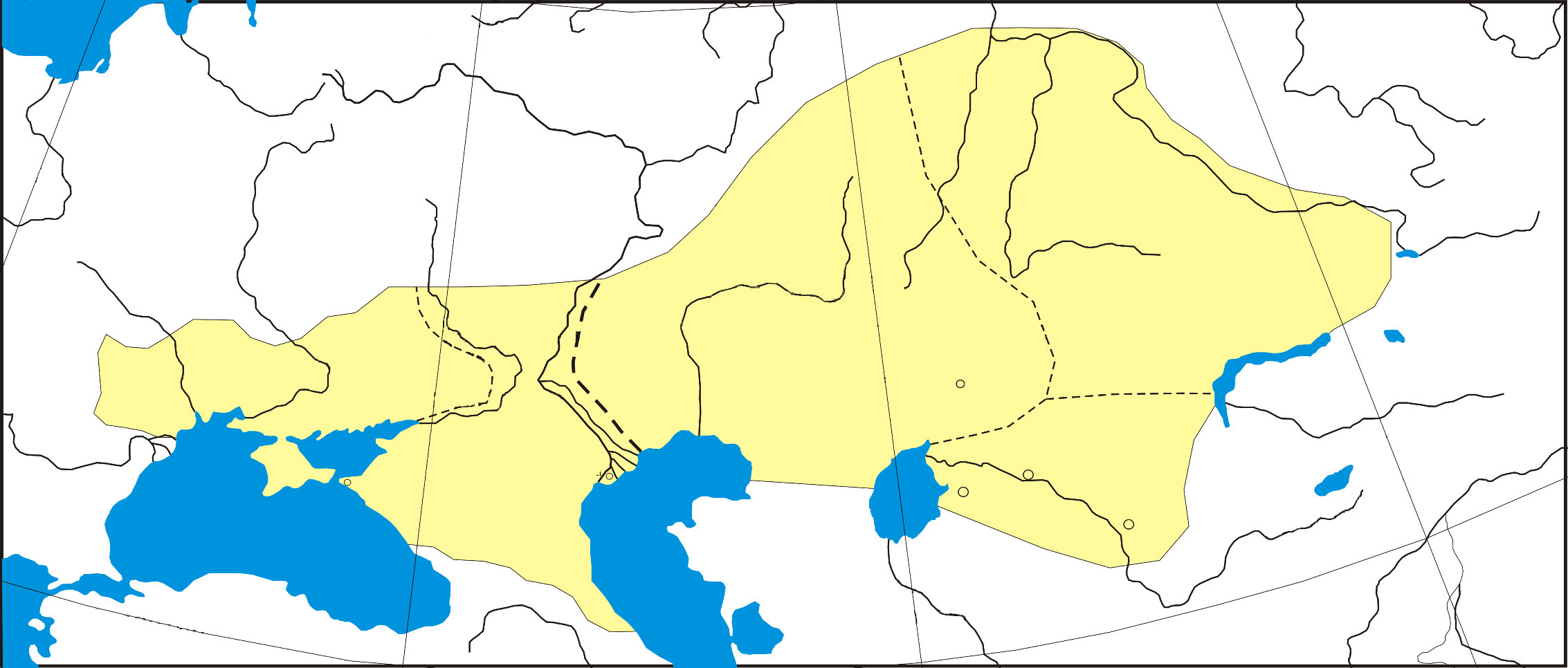 Turkic peoples: Kypchaks steppe in Eurasia, the 11th—12th centuries.